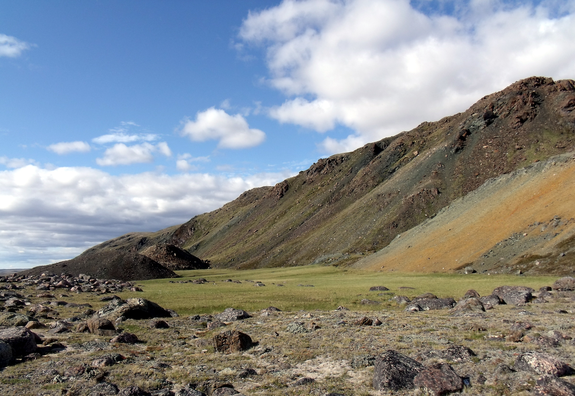 Grassy benches run along the CBFZ in the interior of northern Baffin Island. The boulder till plus rusty gossans seem to be providing extra nutrients. The typical sparsely vegetation in the foreground is atop a mixture of iron-bearing mafic to ultramafic volcanic rocks from the ridge above, limestone boulders from the plains below plus granitic rocks from elsewhere.